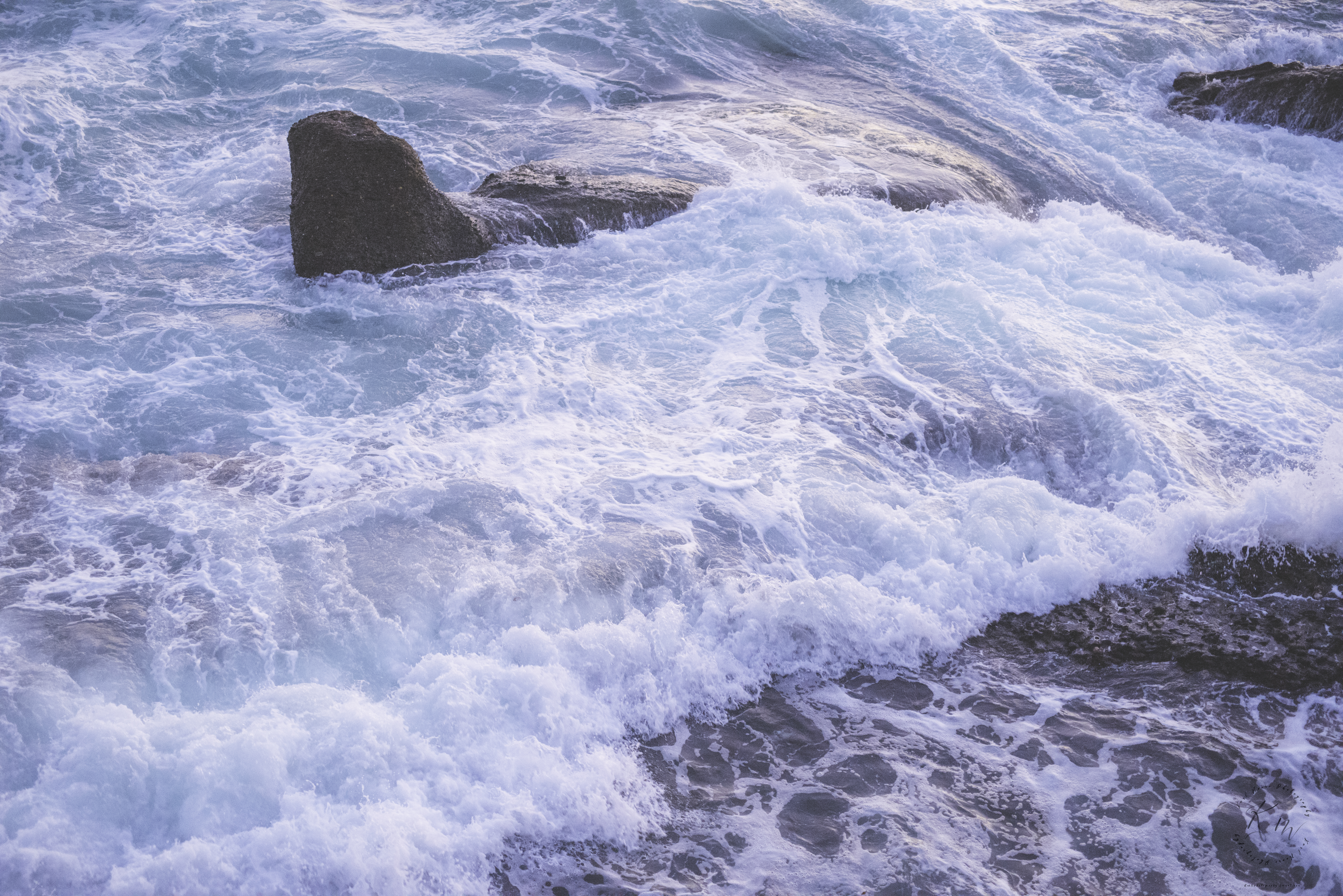 Waves by Goff Cove in Laguna Beach at sunset.